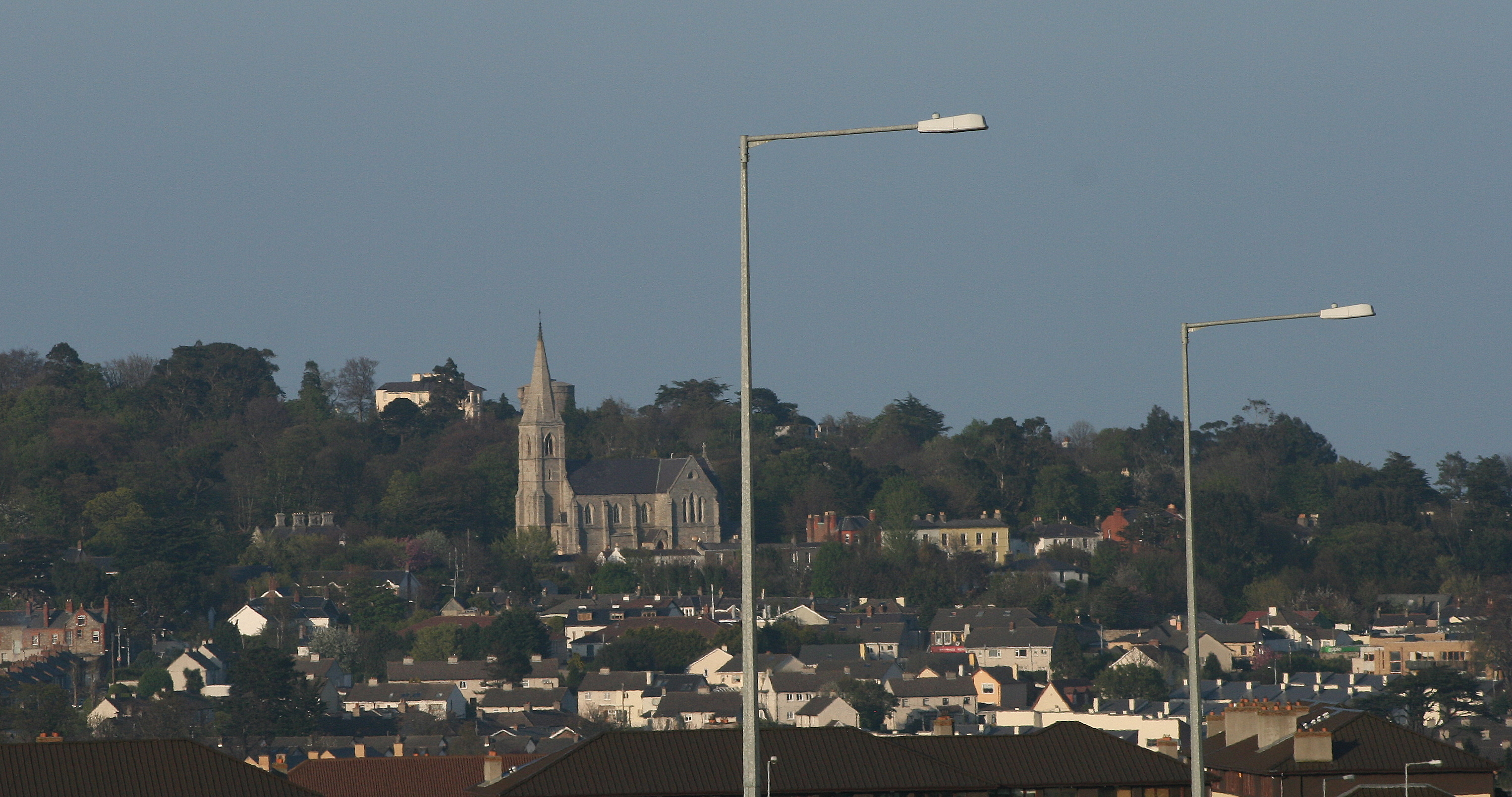 Ballybrack Church